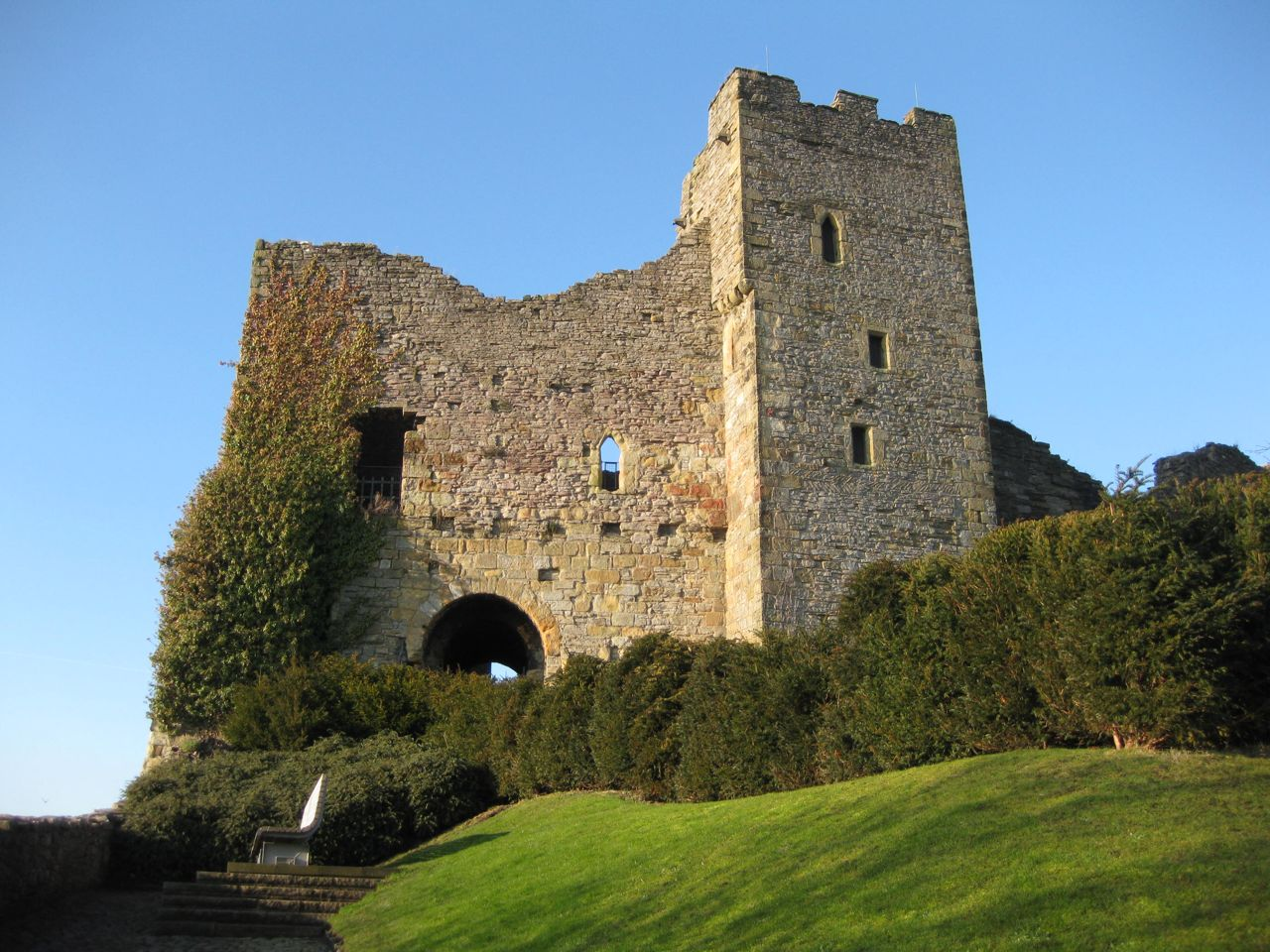 Richmond Castle, Yorkshire, UK